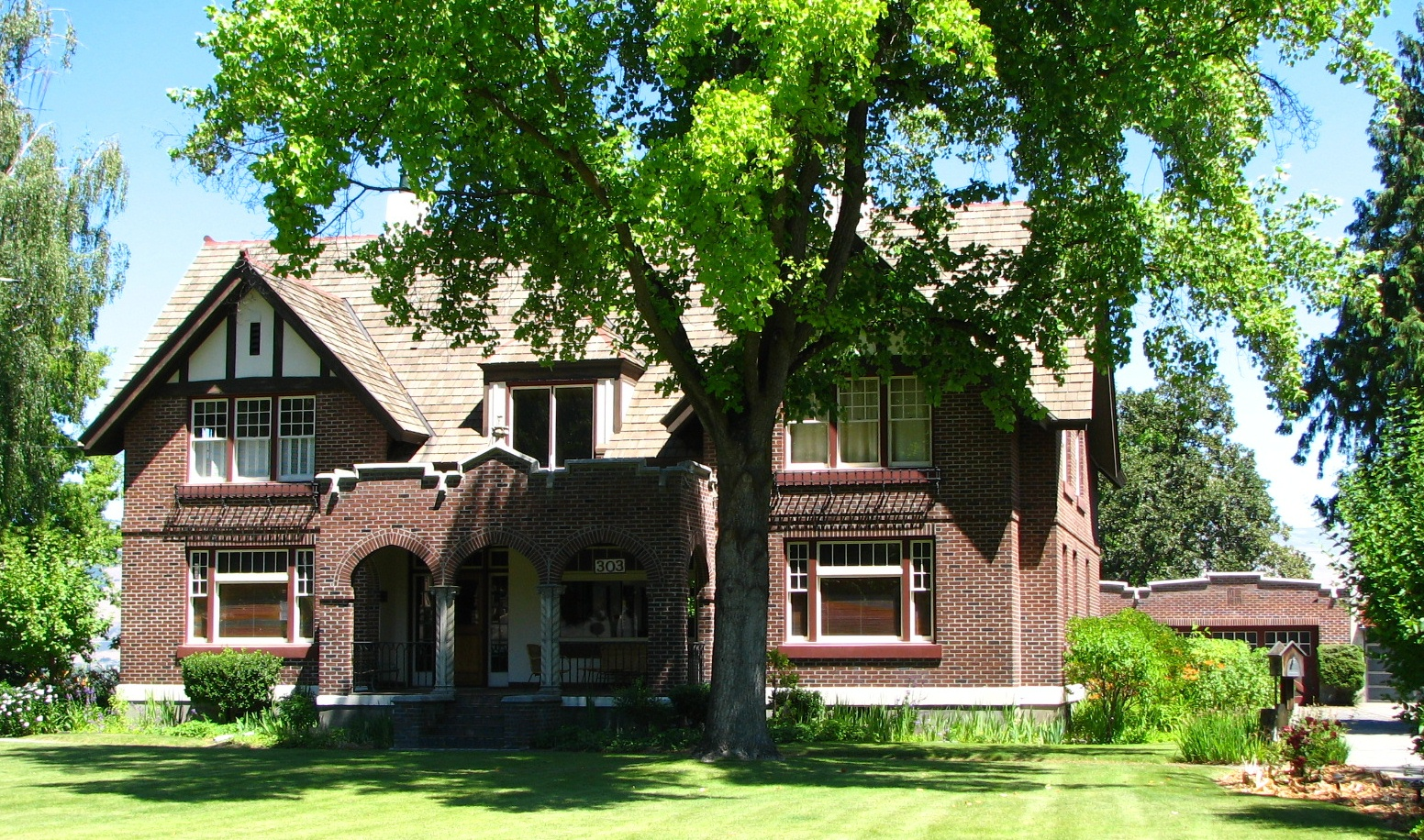 The historic Heimrich–Seufert House (built 1927) at 303 East 10th Street in The Dalles, Oregon, United States, is listed on the US National Register of Historic Places. The house continues in its historic use as a residence.